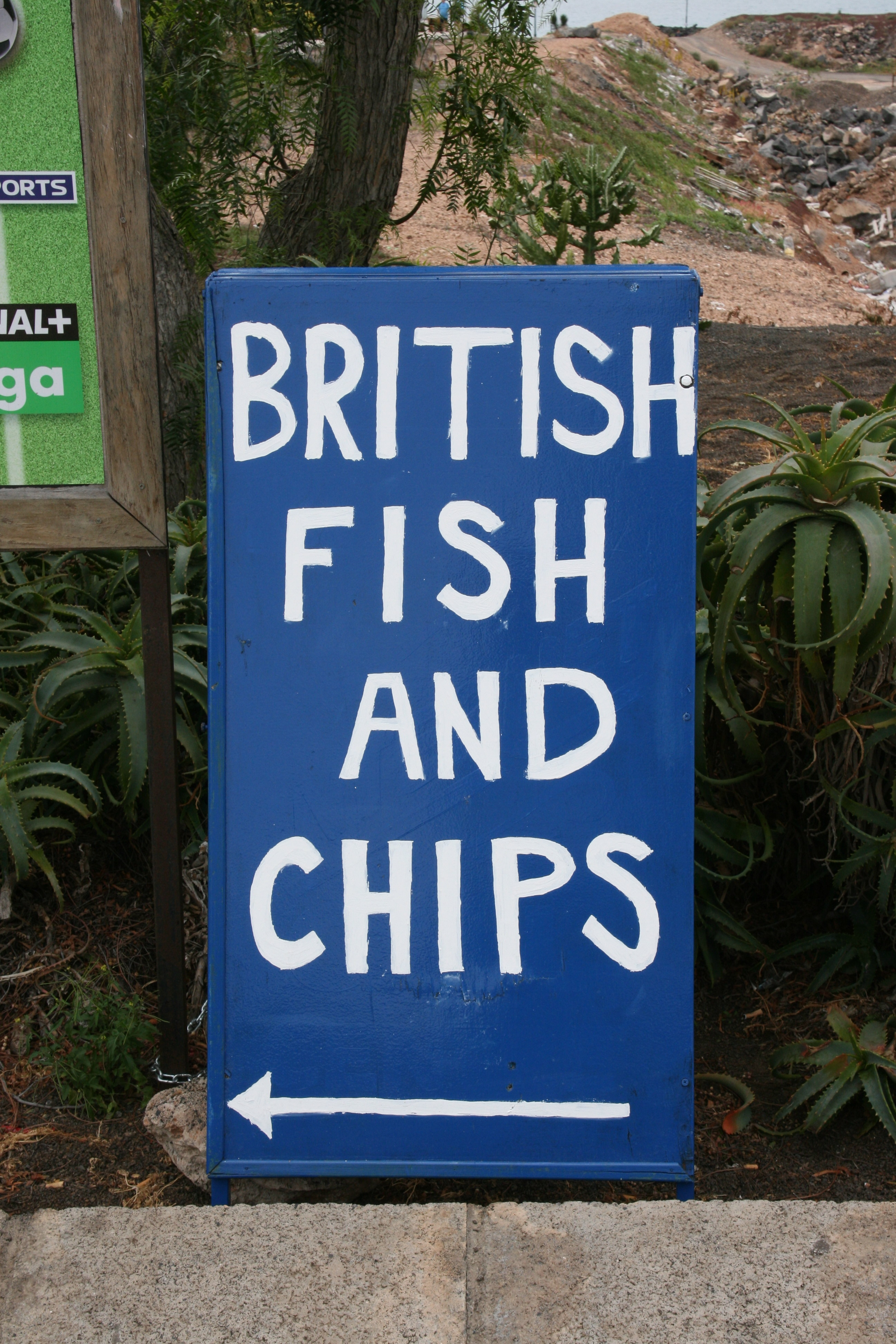 Avenida Papagayo in Playa Blanca, Yaiza, Lanzarote, Canary Islands